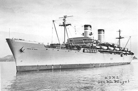 The U.S. Military Sea Transportation Service troop transport USNS General William Weigel (T-AP-119) underway during the early 1950s.